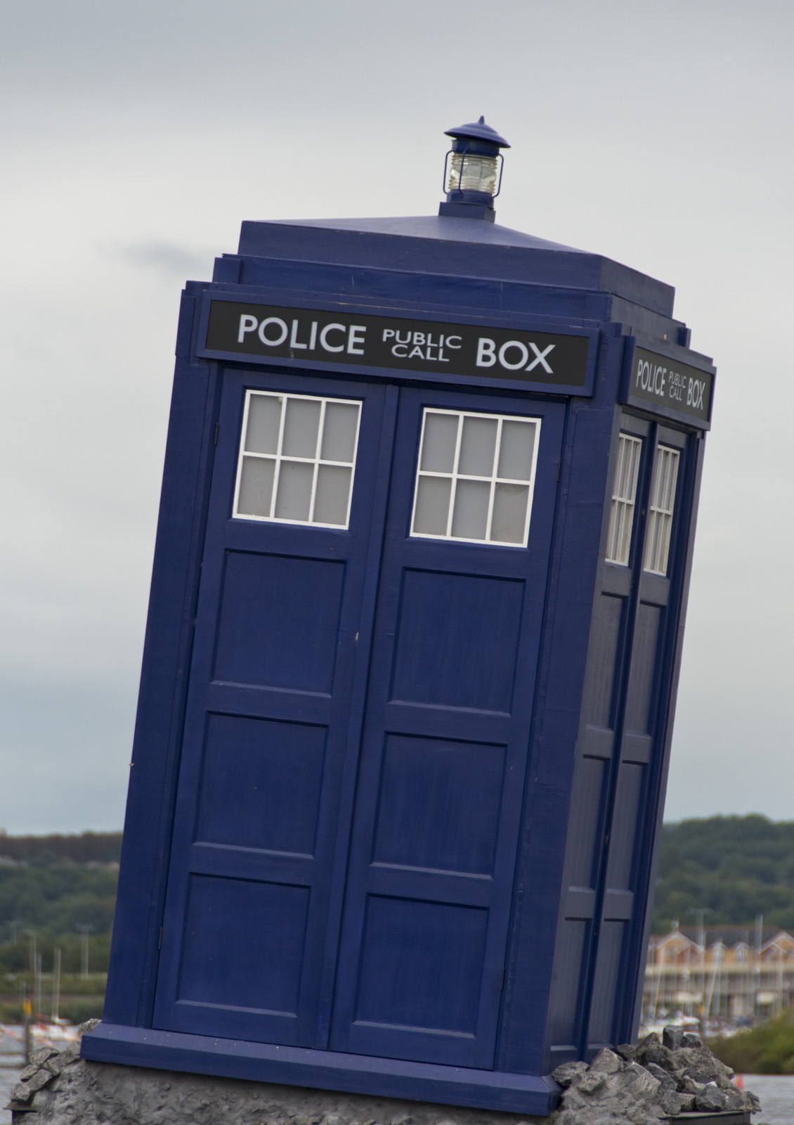 Doctor Who Experience